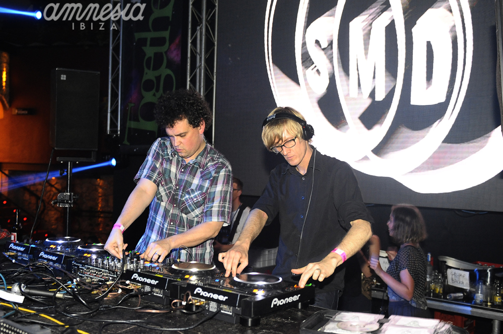 17.07.12 - Together. More pics at